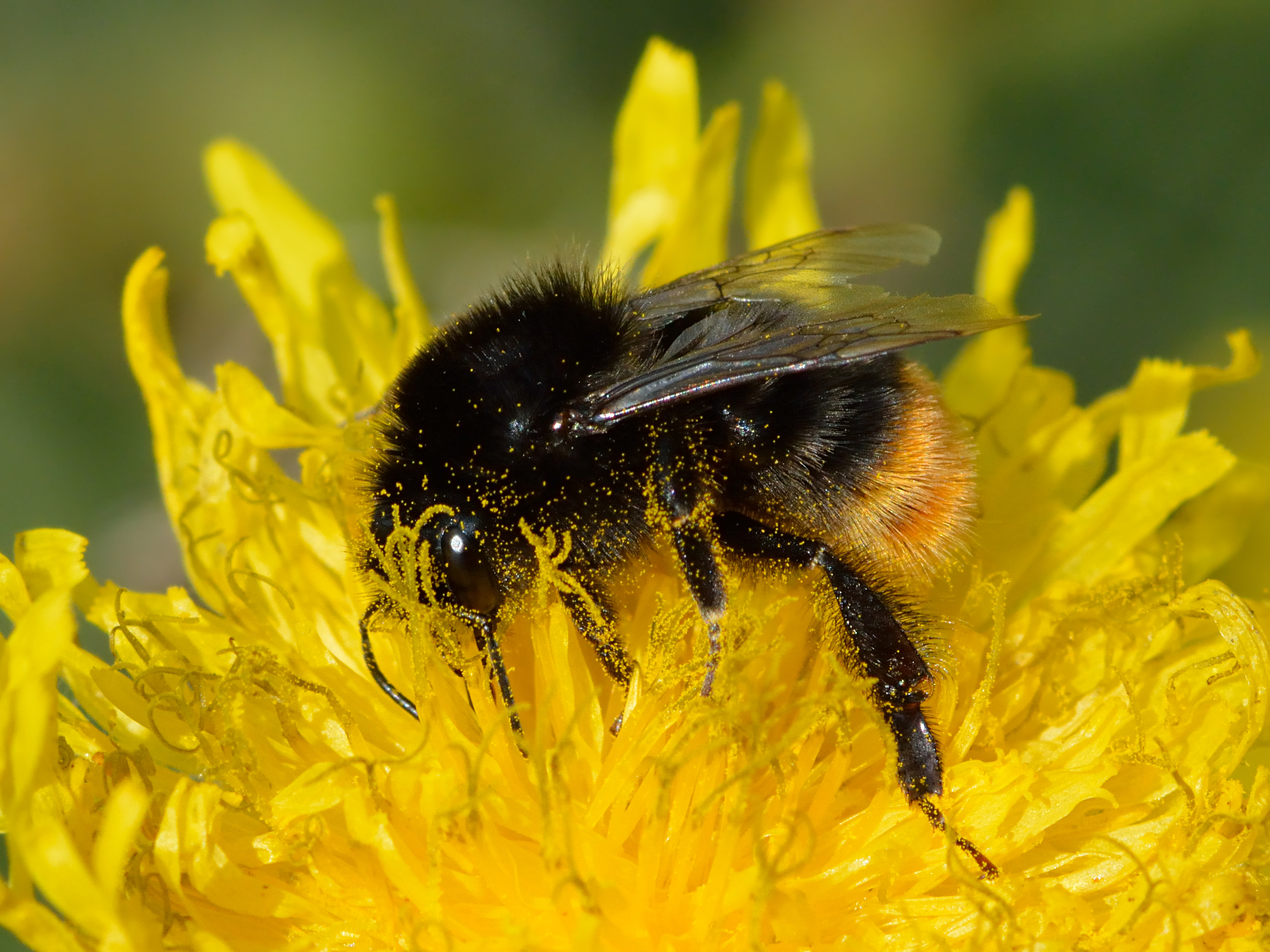 Red-tailed bumblebee (Bombus lapidarius) on the prickly sow-thistle (Sonchus asper). Keila, Northwestern Estonia.